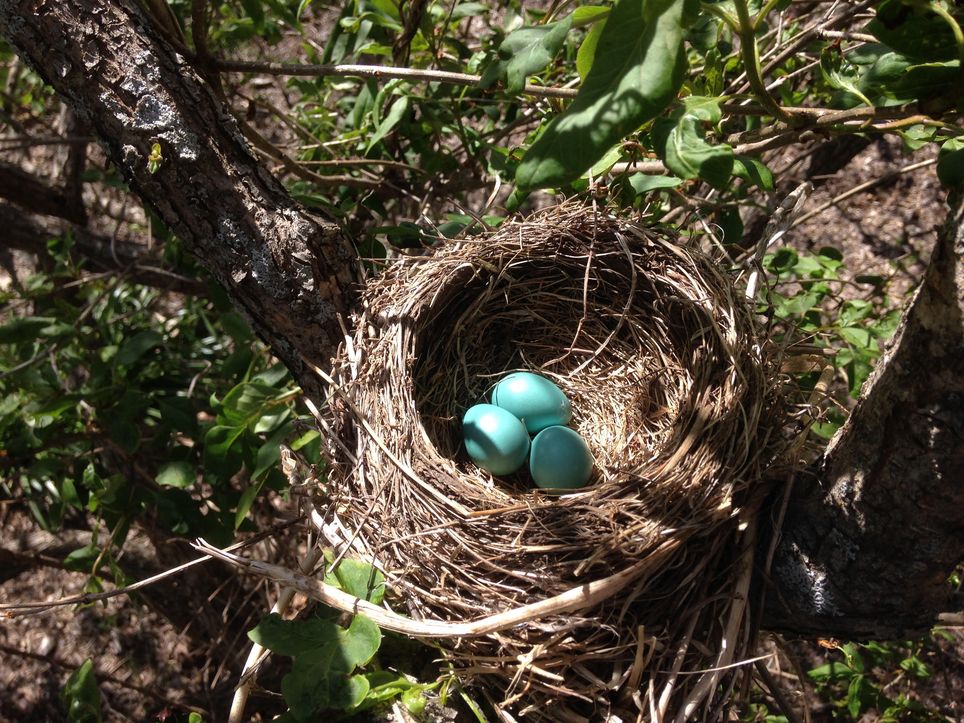 Turdus migratorious (American Robin) nest and eggs